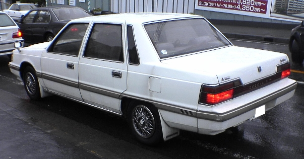 Second generation Mitsubishi Debonair Super Saloon (?). This version has the bigger bumpers as used on the 3 liter versions.